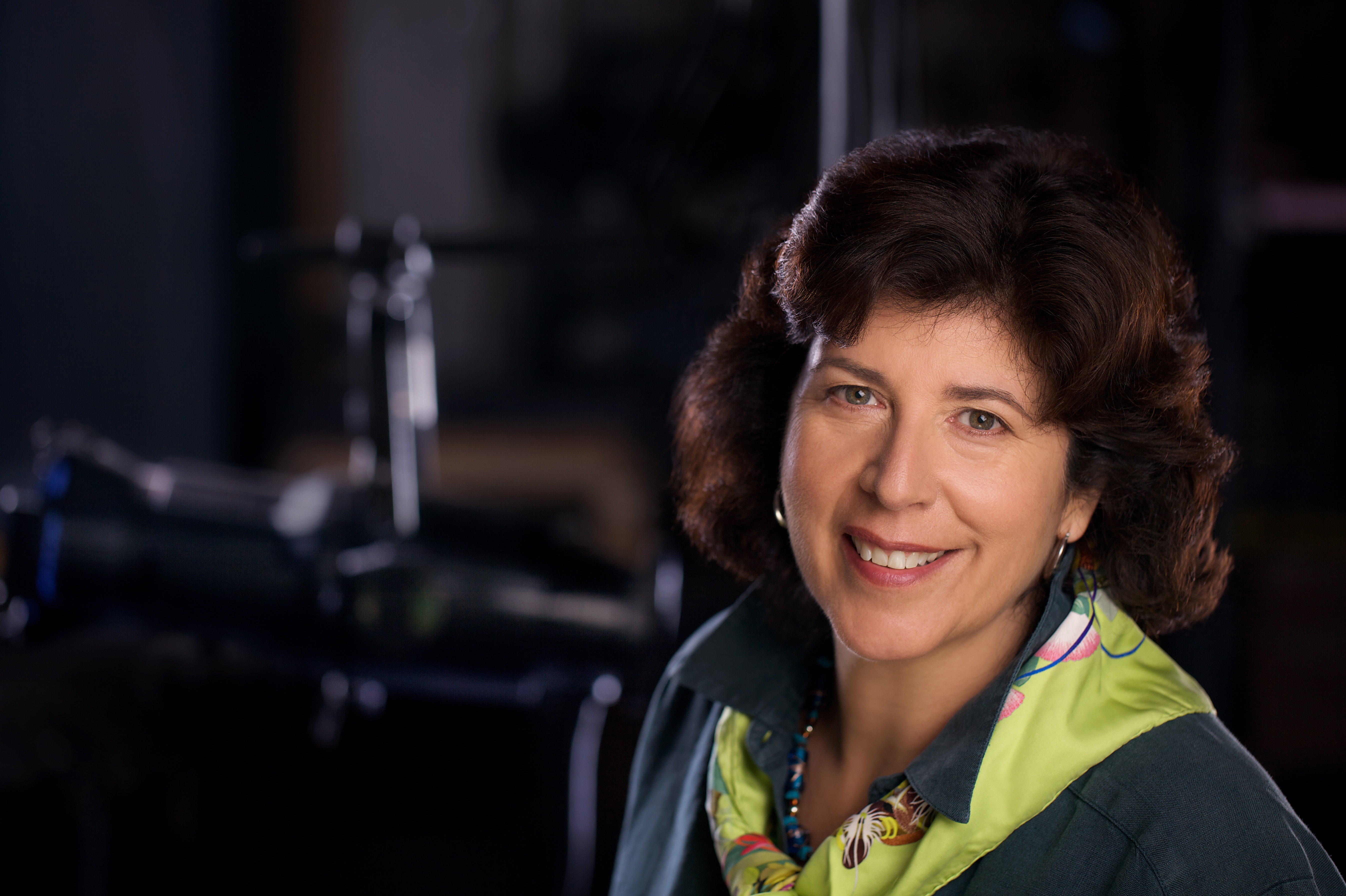 Francesca Zambello headshot by Claire McAdams